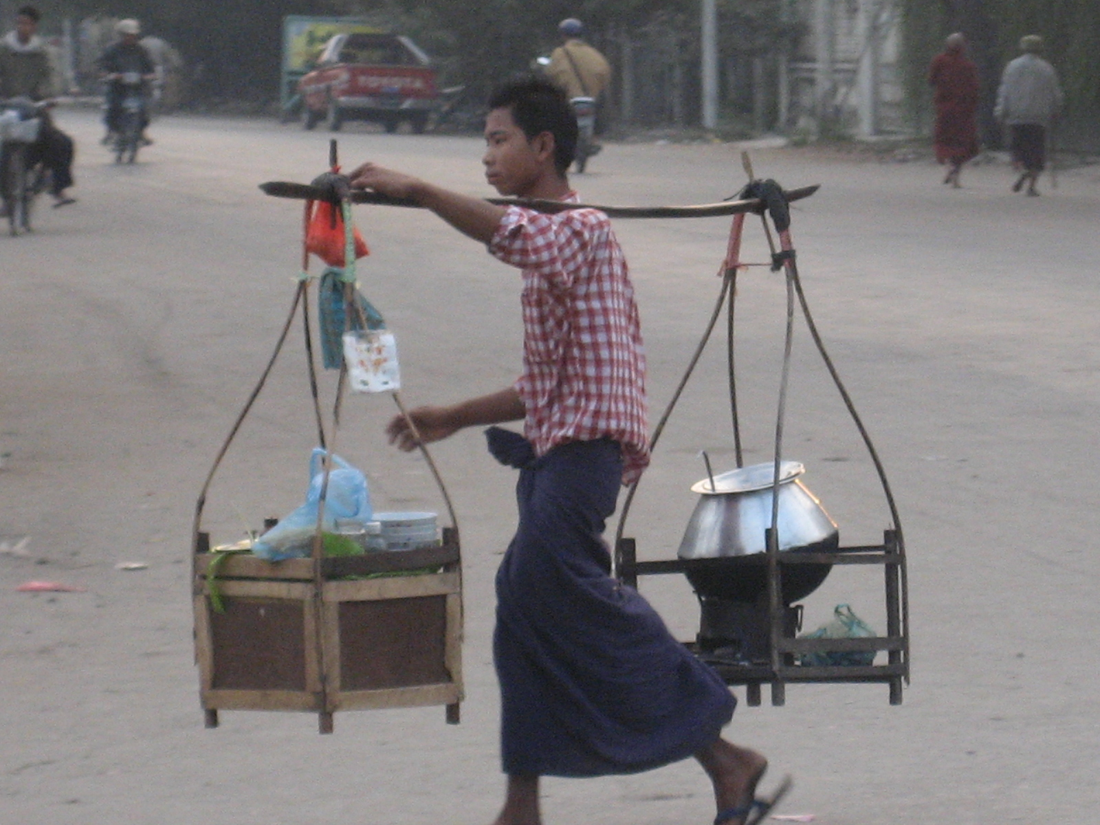 Mohinga streethawker in Mandalay, the traditional style before trishawpeddlers, pavement stalls and finally restaurants have also made it available all day. On one side is the soup in a large pot, with lid and ladle, kept hot on a stove; the other carries rice vermicelli on banana leaves and covered with white muslin in a bamboo basket, with all the trimmings in pots, jars and bottles, including fritters kept crispy in a bag on the top shelf along with bowls and spoons.